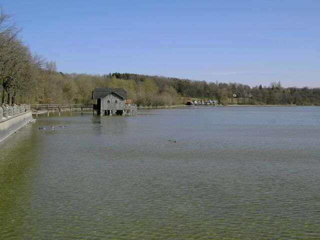 Lake Ammer near Stegen, looking eastward. Source: Photo taken and originally uploaded to Bild:Ammersee-stegen-640-480.jpg by Benutzer:Alexander.stohr: 22:35, 26. Apr 2004 . . Alexander.stohr (Diskussion) . . 640 x 480 (51315 Byte) (Ammersee bei Stegen, Blickrichtung Osten, selbst fotografiert, GNU-FDL)